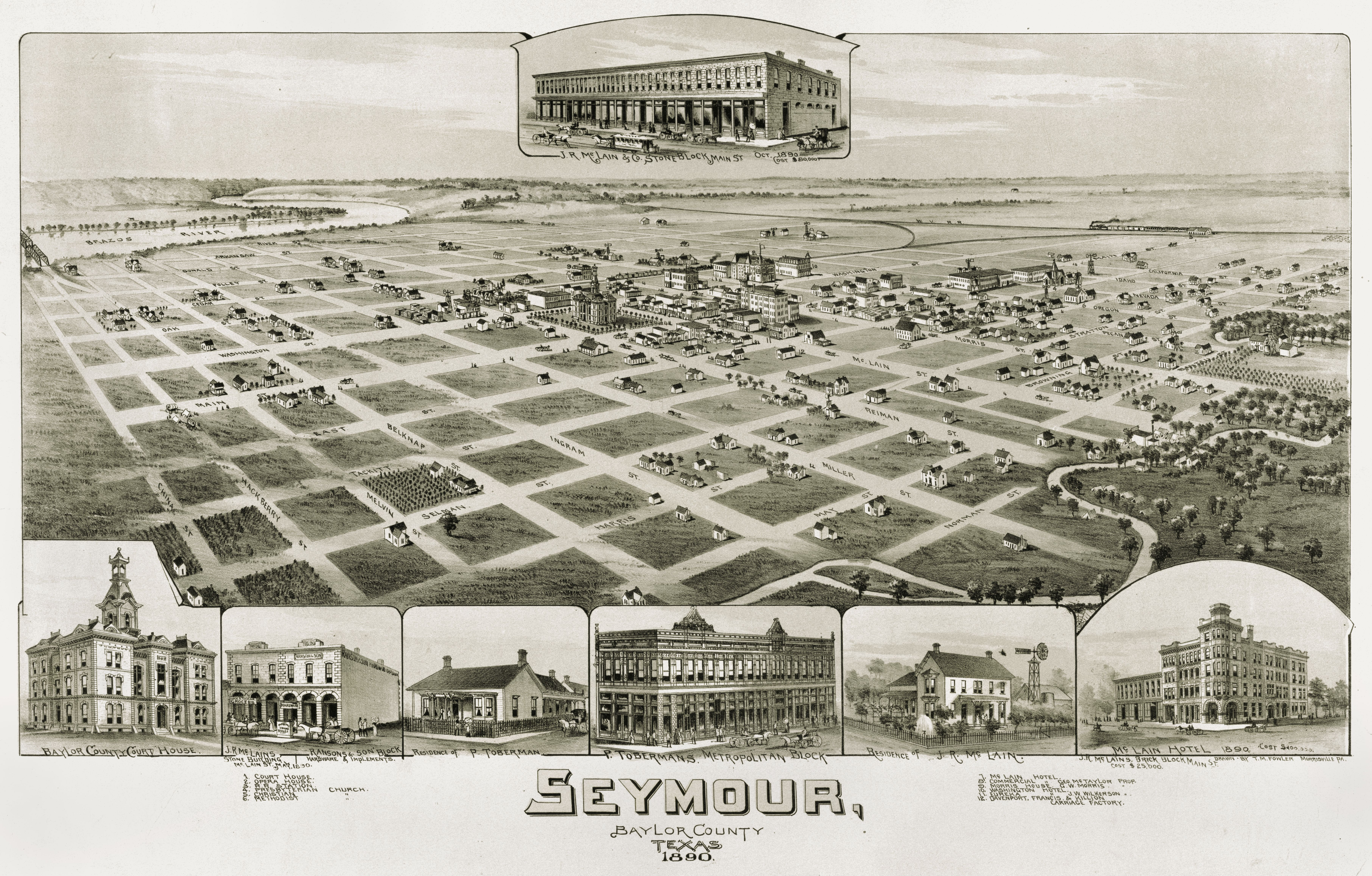 Seymour, Texas in 1890. Seymour, Baylor County Texas 1890, 1890. Lithograph, 15.5 x 28.5 in. Lithographer unknown. Amon Carter Museum, Fort Worth. (In the 1980s the original map was lost during transit to the museum following conservation. The museum welcomes any information that might lead to the recovery of the map.)